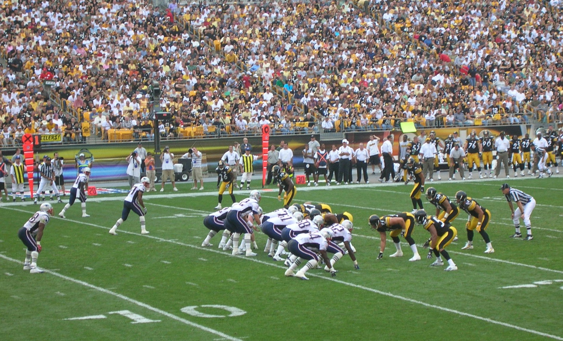 Pittsburgh Steelers vs New England Patriots at Heinz Field, Pittsburgh, Pennsylvania, USA